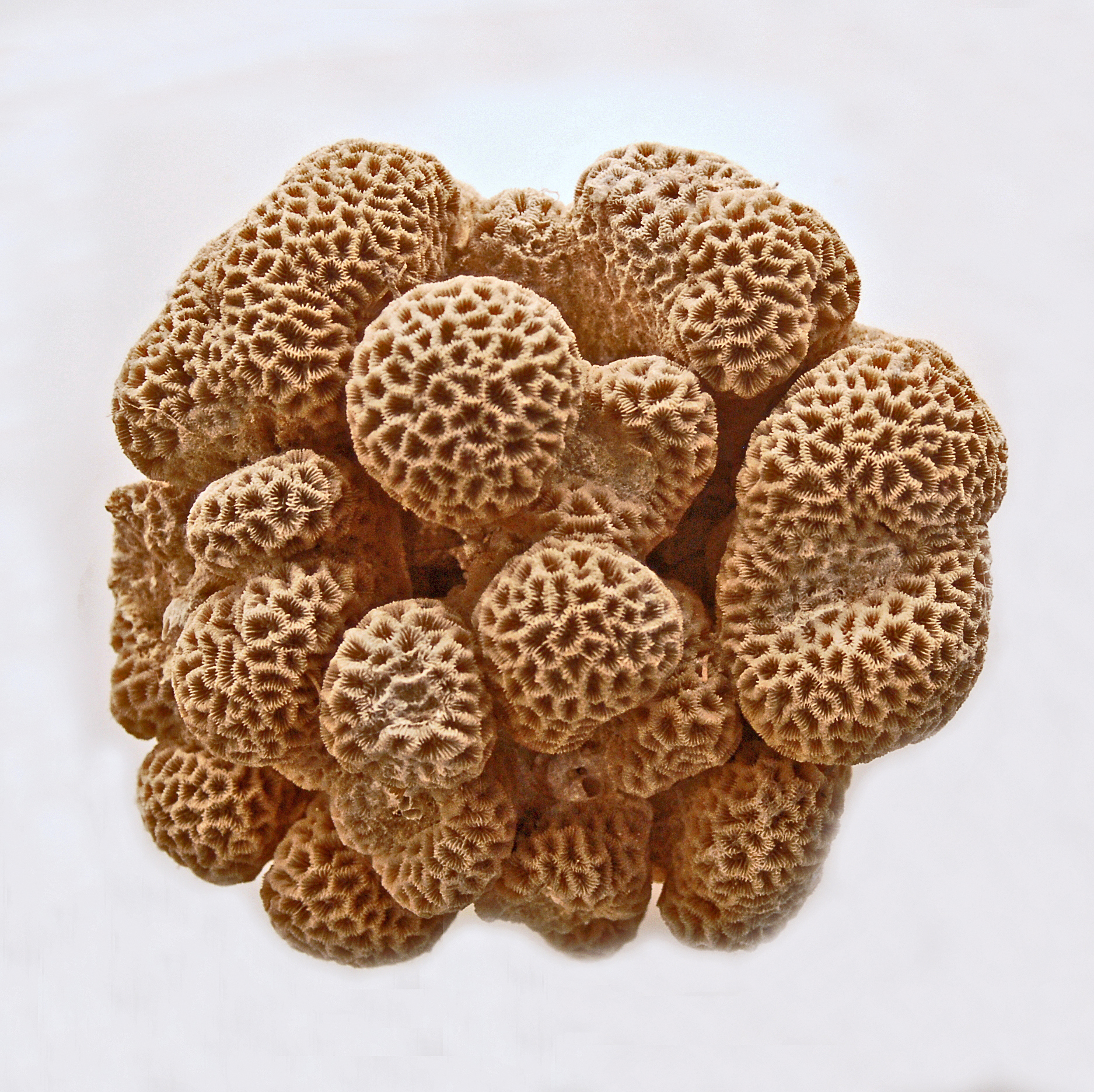 Goniastrea retiformis. On display at the Museo Civico di Storia Naturale di Milano